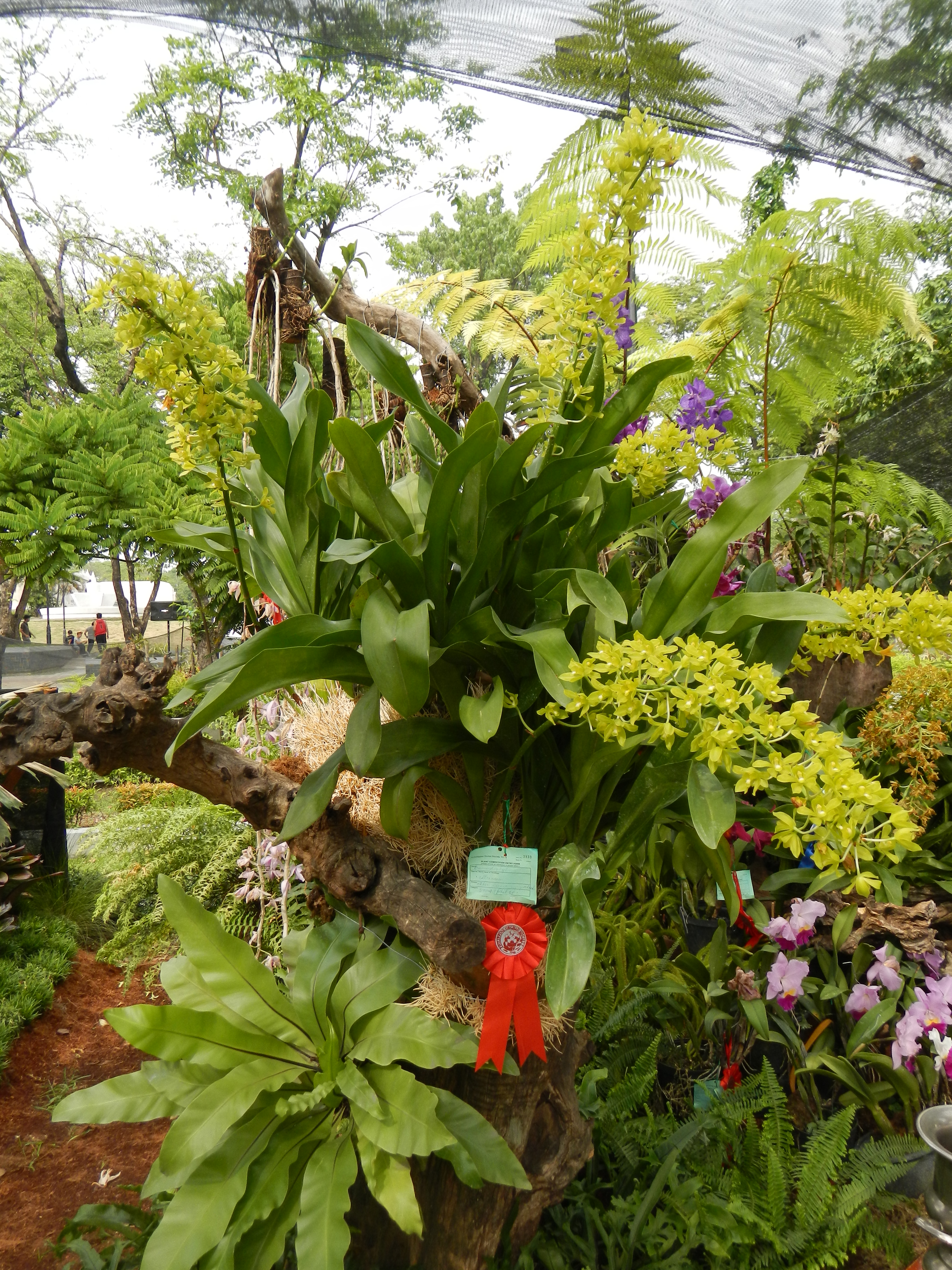 Grammatophyllum citrinum [1]Grammatophyllum scriptum var. citrinum